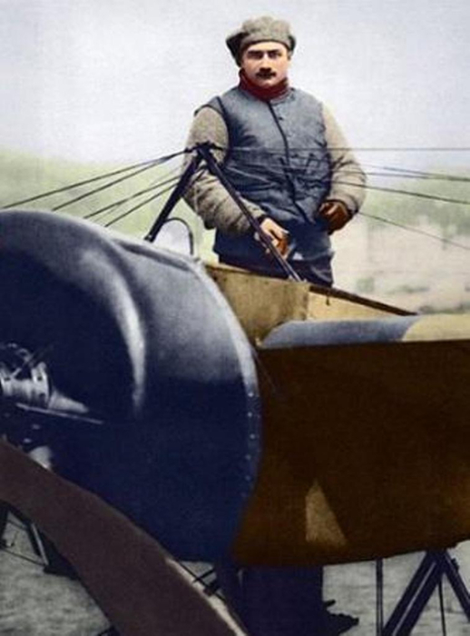 Roland Garros (pilot)